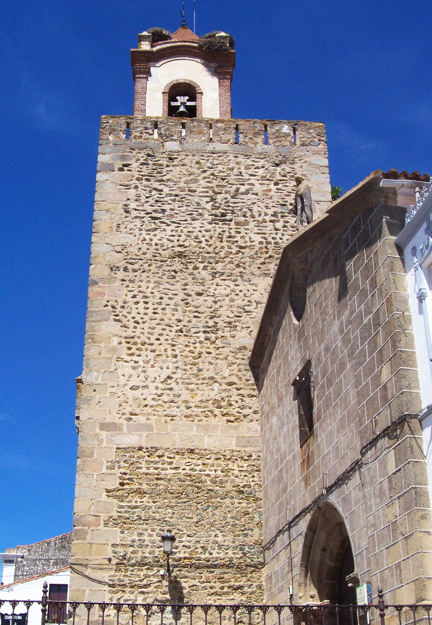 Torre del Homenaje de Fregenal de la Sierra